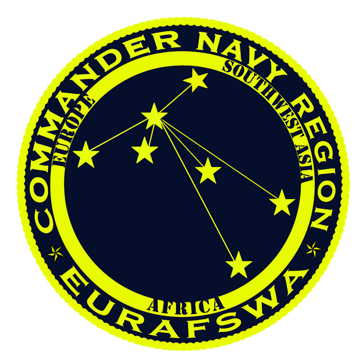 Logo of Navy Region Europe Africa Southwest Asia